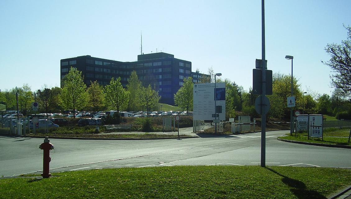 Bundeswehr hospital in Ulm